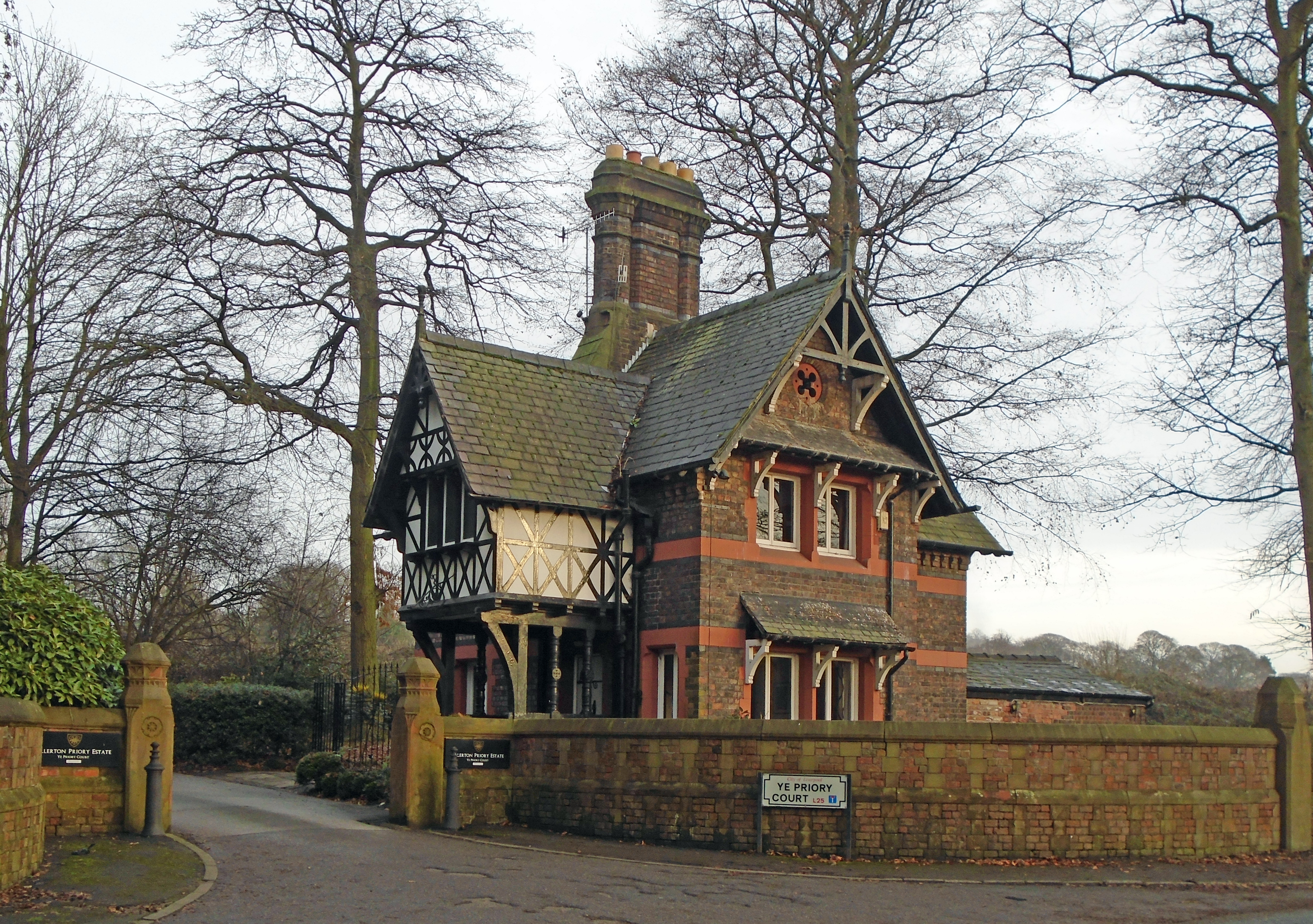 Estate lodge for Allerton Priory on Allerton Road/Ye Priory Court.